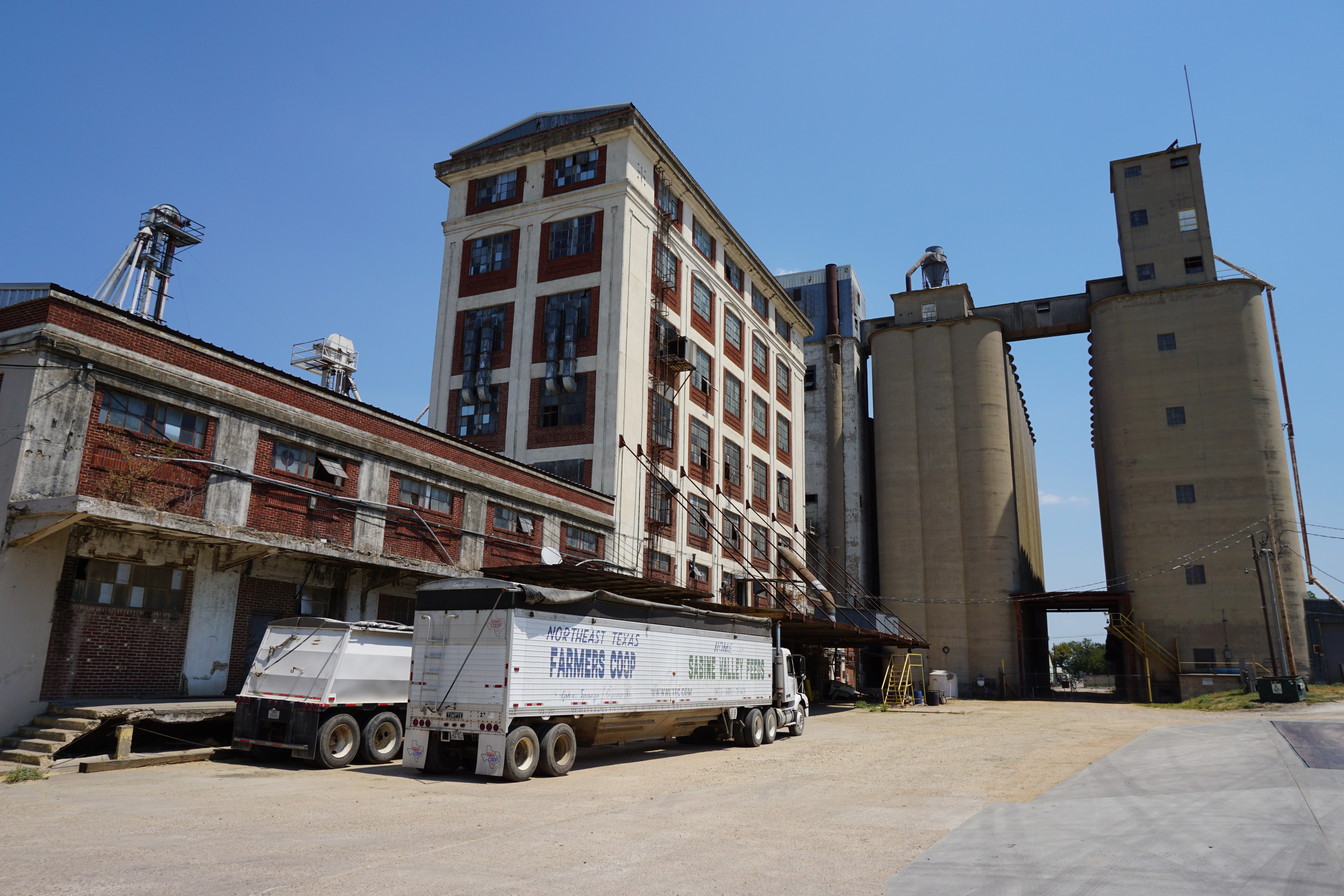 The Northeast Texas Farmers Co-op Sabine Valley Feeds feed mill in Greenville, Texas (United States).